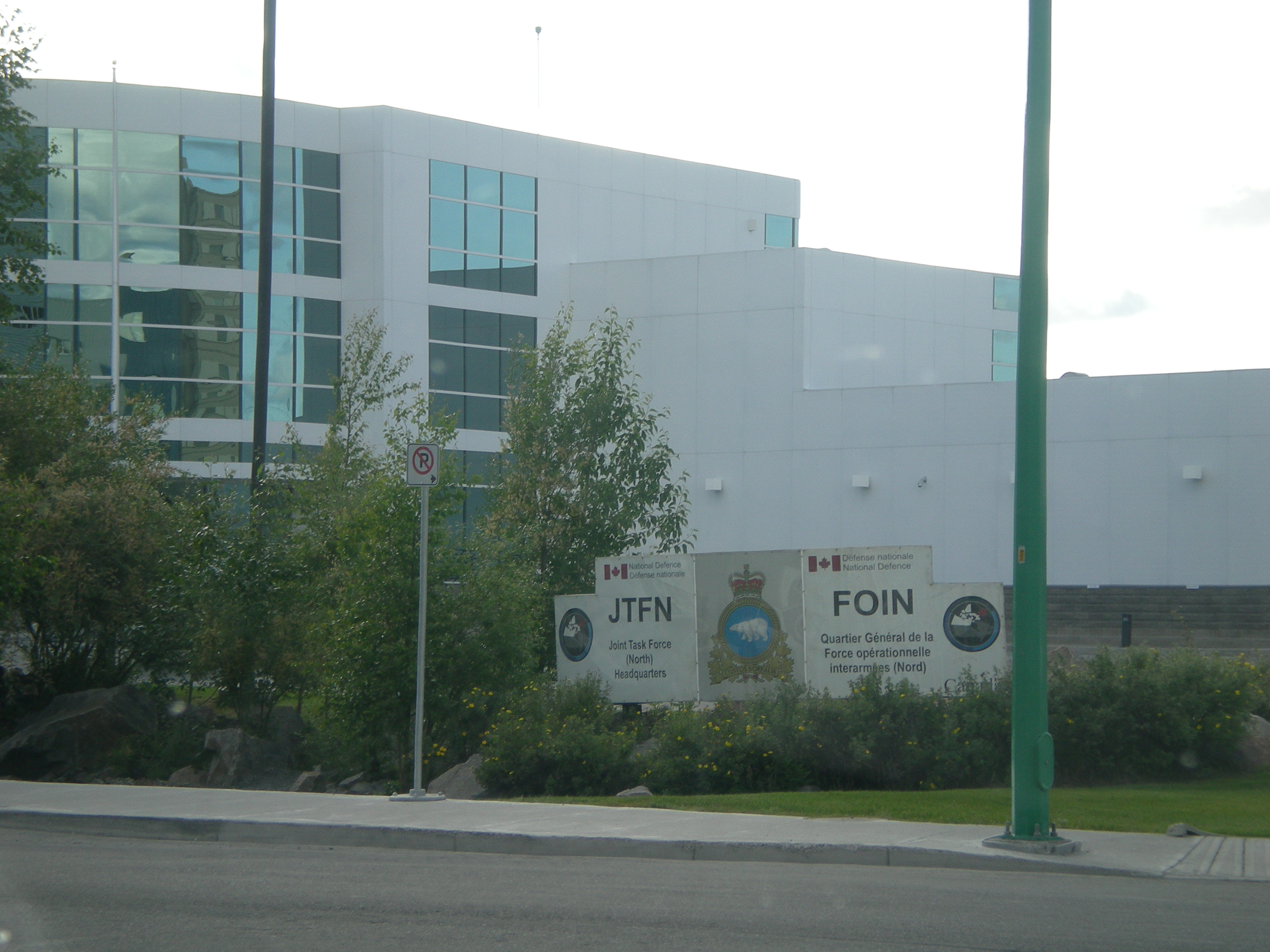 Canadian Forces Northern Area Headquarters Yellowknife